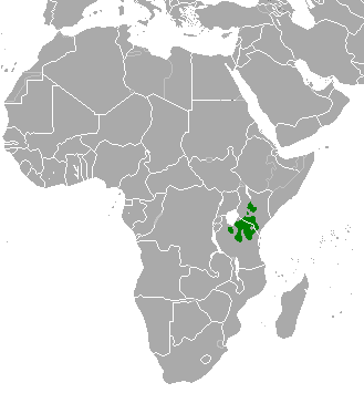 map